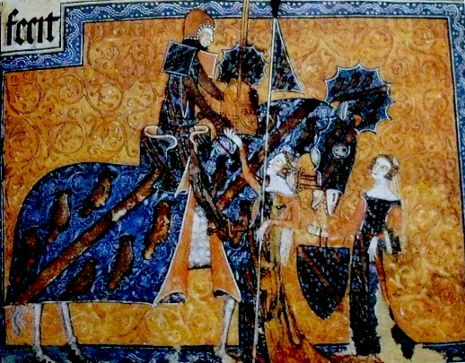 Sir Geoffrey Luttrell, mounted, being assisted by his wife and daughter-in-law.